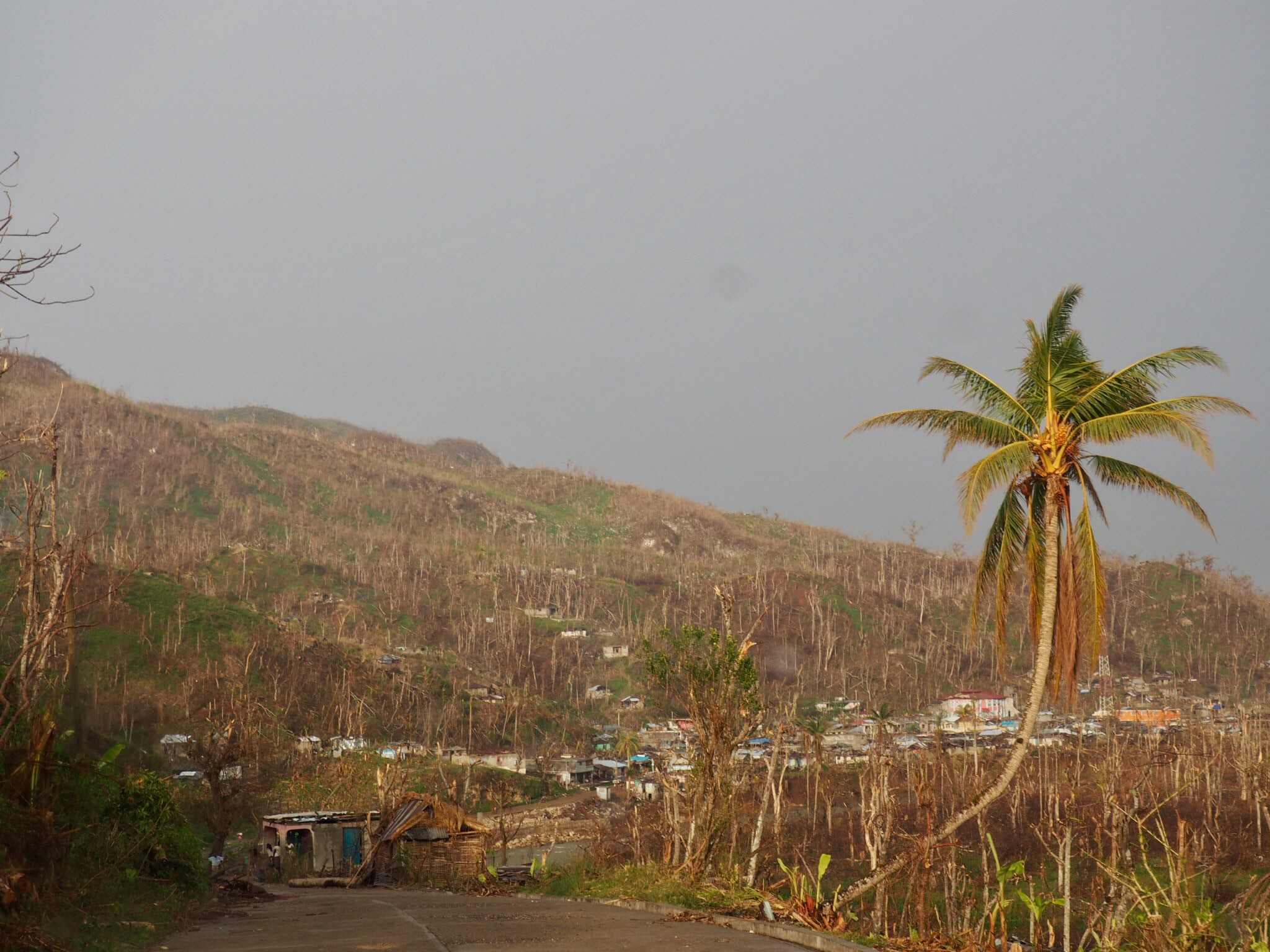 Extensive defoliation from Hurricane Matthew's violent winds near the city of Moron, Haiti